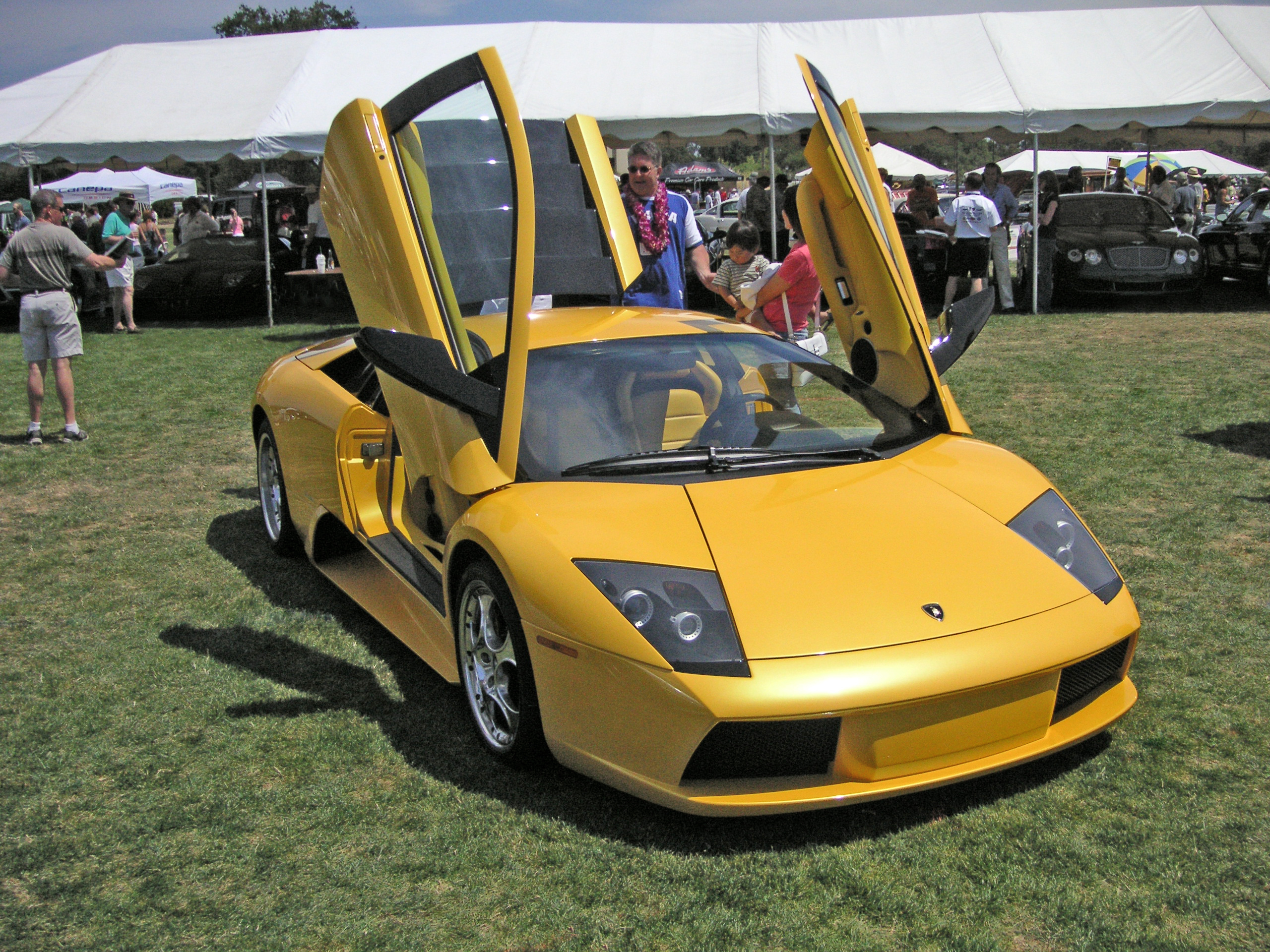 A yellow Lamborghini Murciélago. Taken at the 29th annual Palo Alto Concours d'Elegance at Stanford.